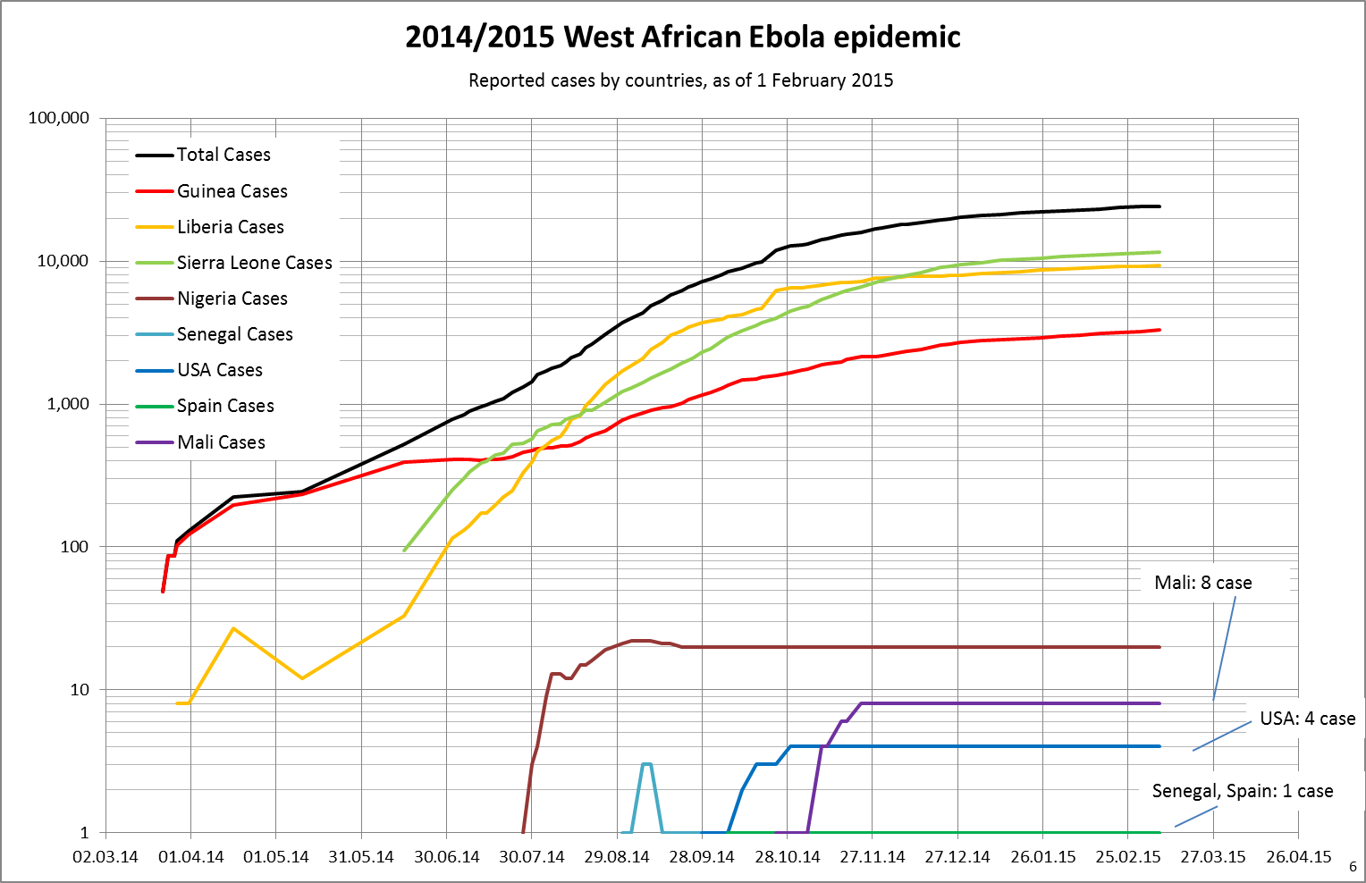 Cumulated Ebola cases taken from Wikipedia. Graph will be updated if new numbers are published. Thanks to User "The Anome" who created a similar graph before.